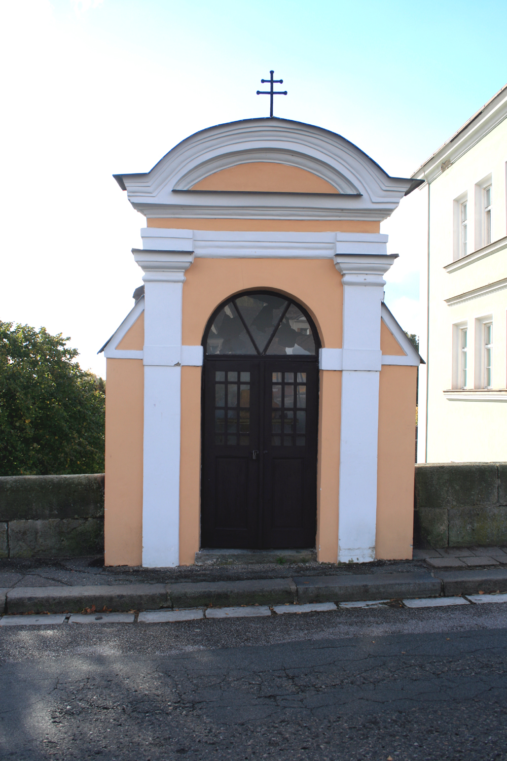 Small chapel at the bridge in Havlíčkova street, Jaroměř, Czech Republic